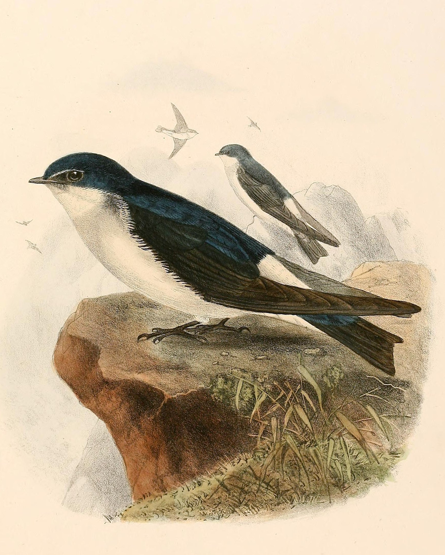 « Tachycineta meyeni » = Tachycineta leucopyga (Chilean Swallow)